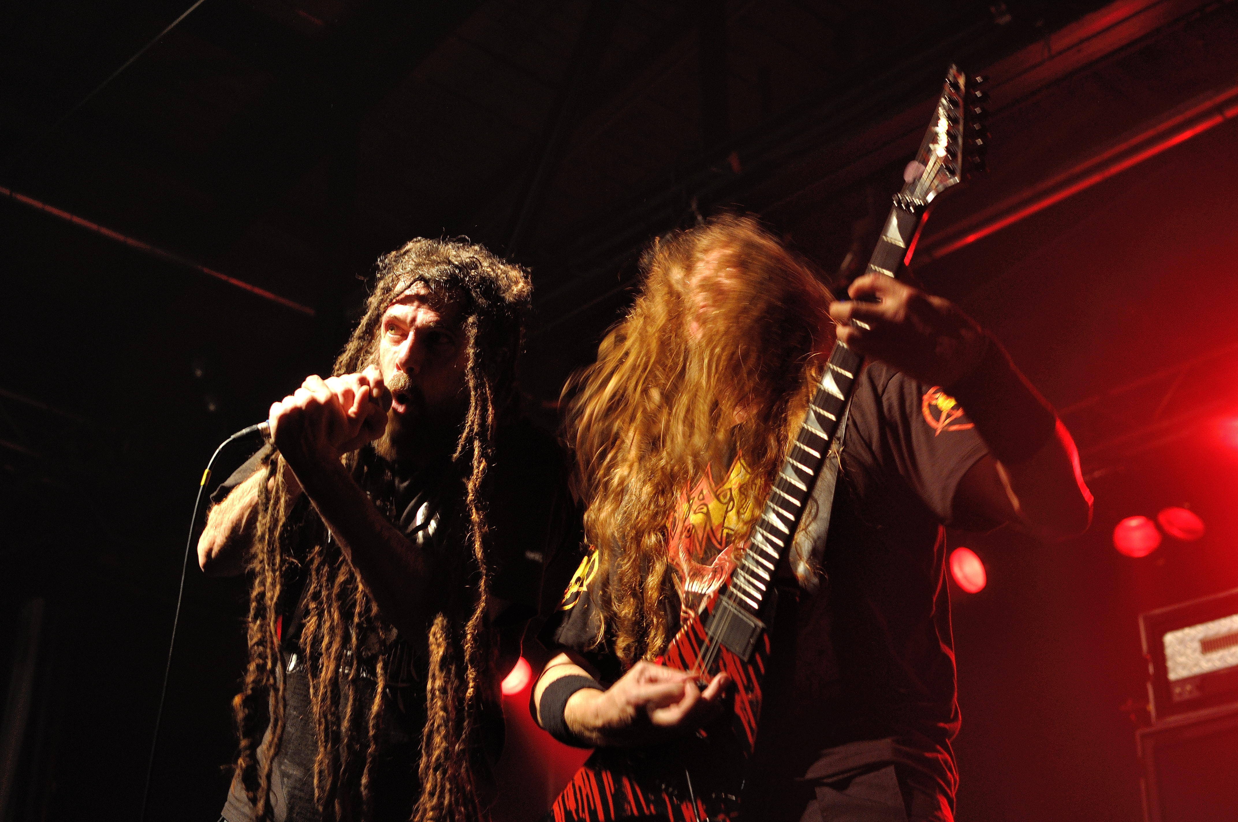 Six Feet Under at Hatefest 2015 in Berlin.